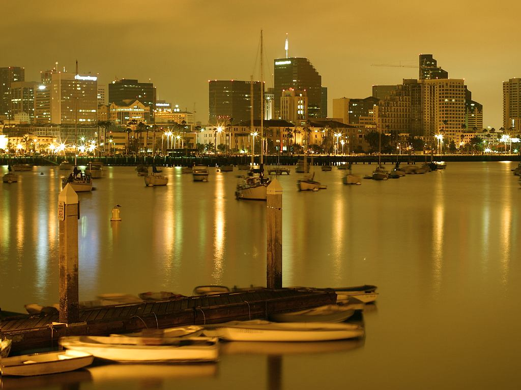 Sailboats in San Diego, California at 4 am